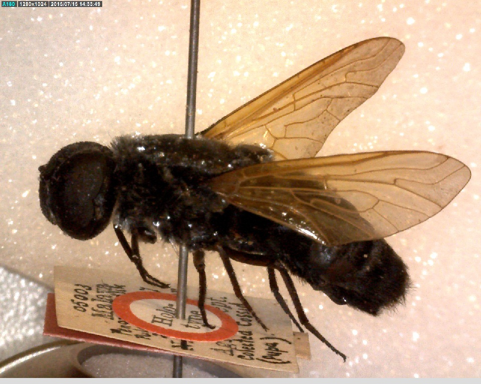 Holotype of Marleyimyia goliath